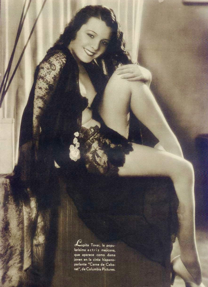 Publicity photo of Lupita Tovar for Argentinean Magazine. (Printed in USA)